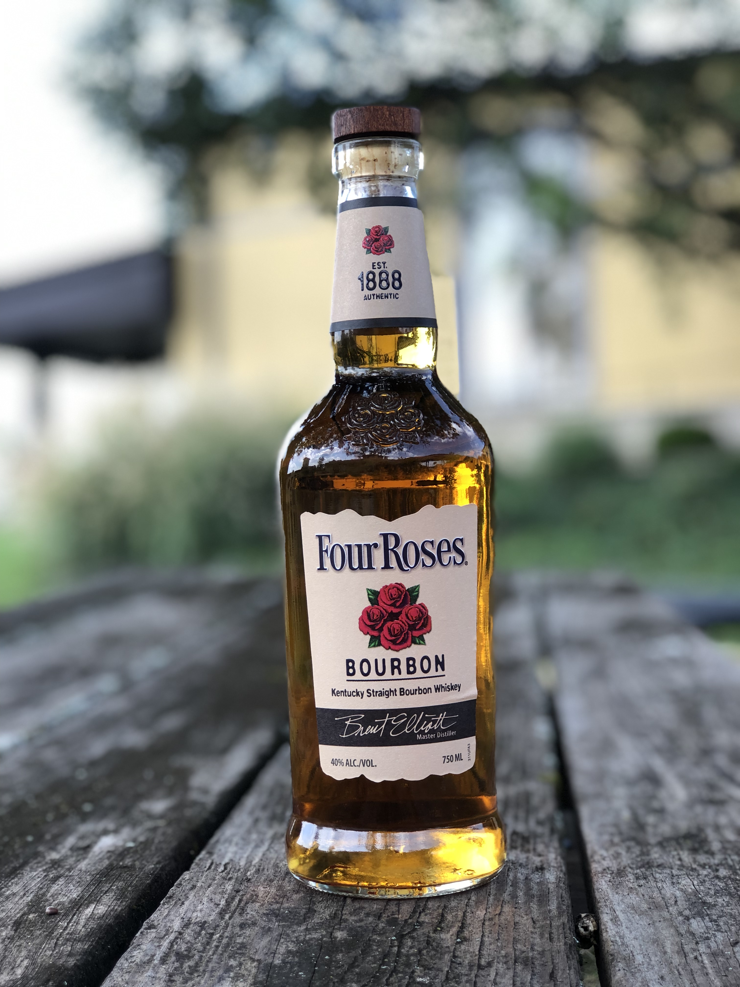 A 750 ml. Four Roses Bourbon Bottle